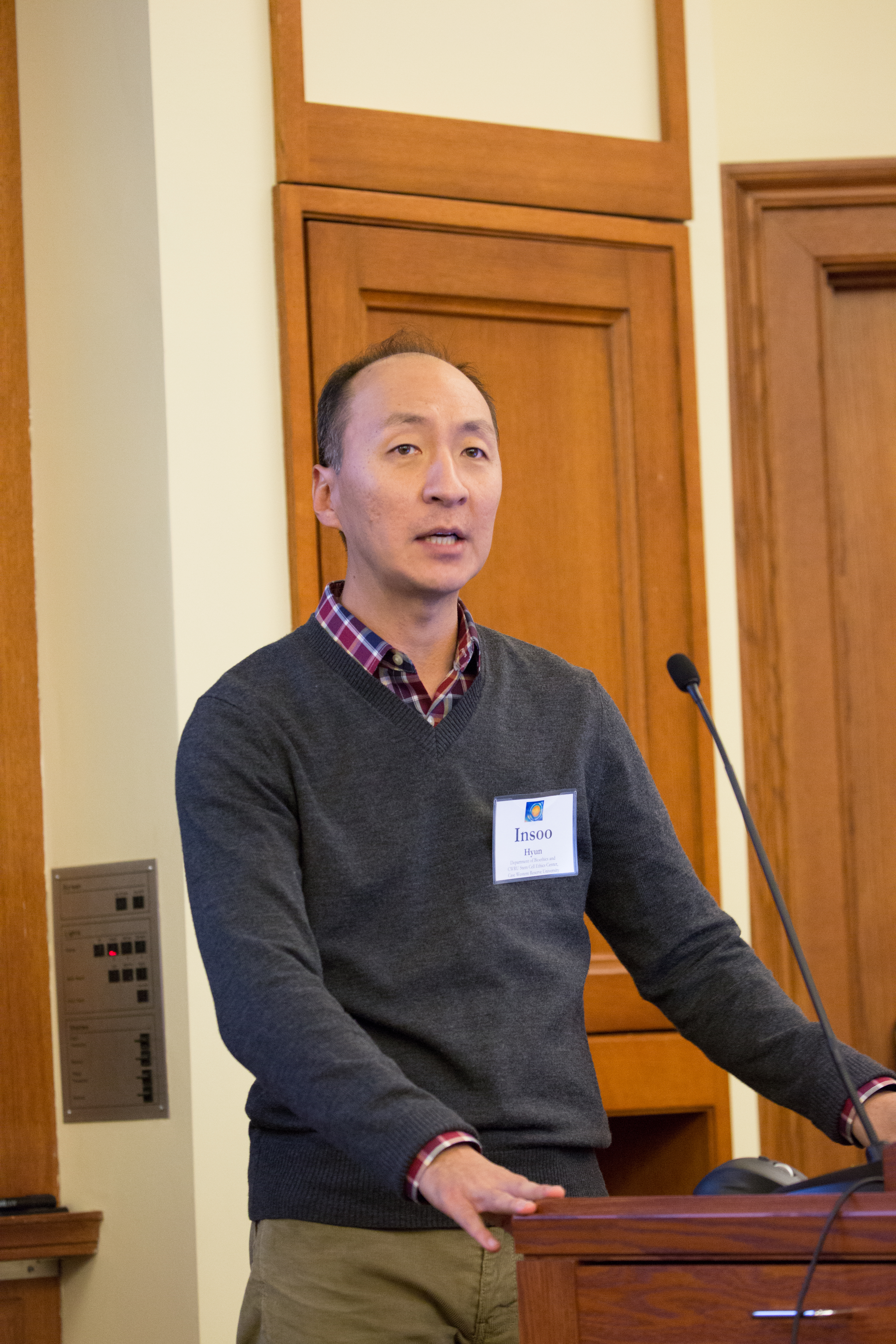 Insoo Hyun at the Edmond J. Safra Center for Ethics.